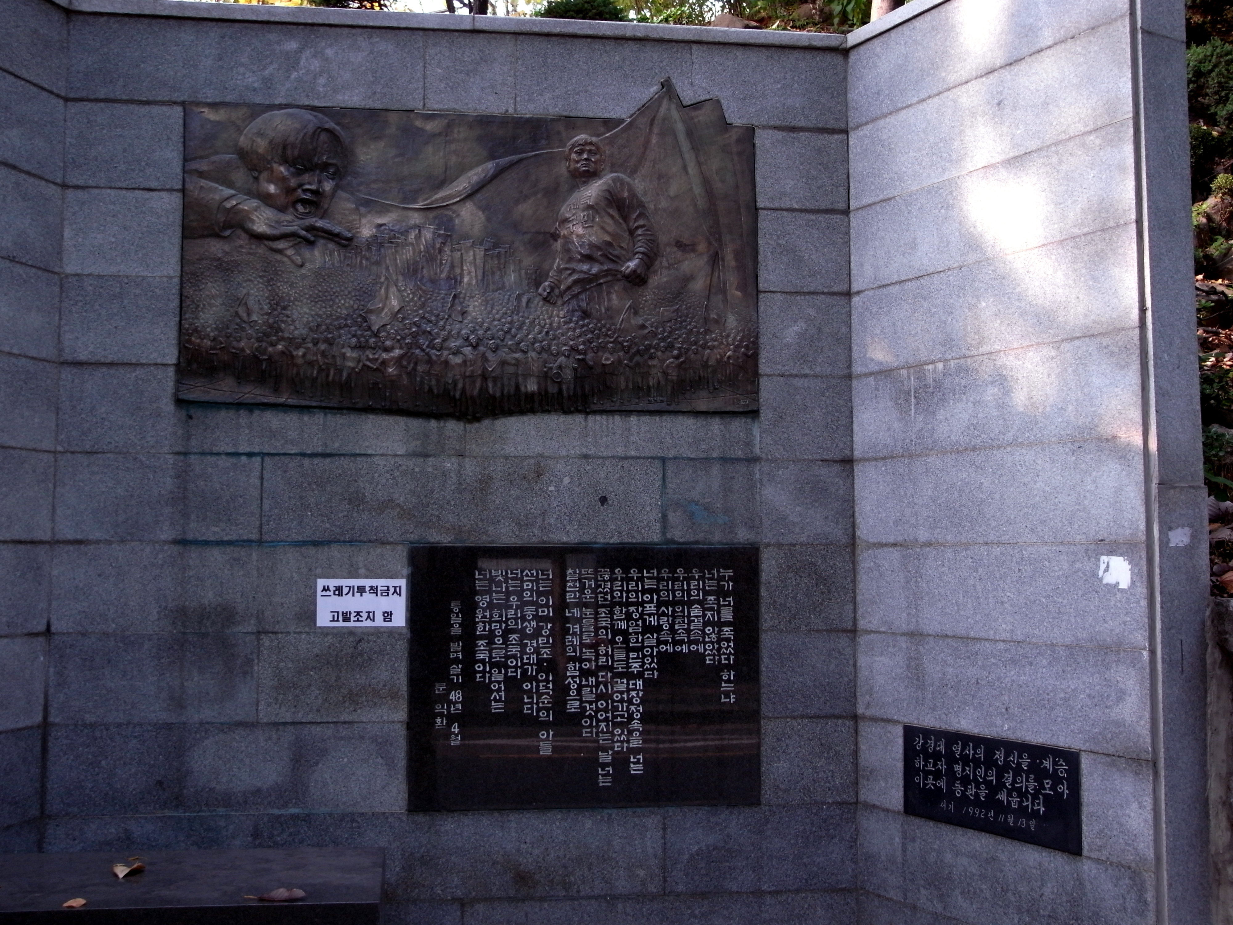 Kang Kyeong-Dae Memorial